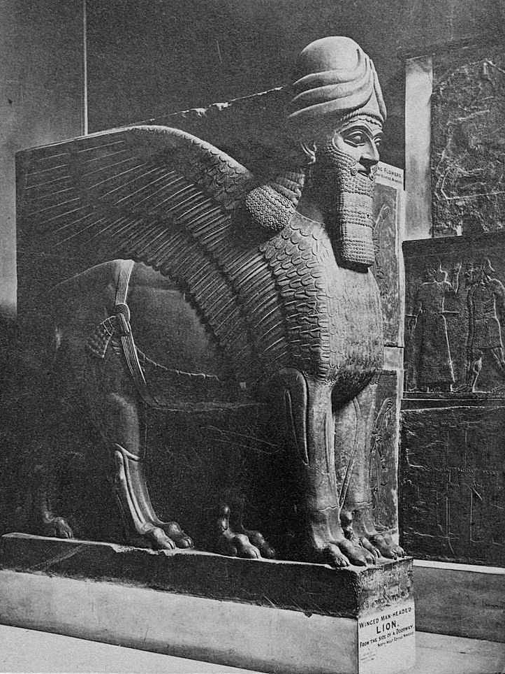 Assyria - Portal Guardian from Nimroud. British Museum - Statue of a lion with wings and head of a bearded man.